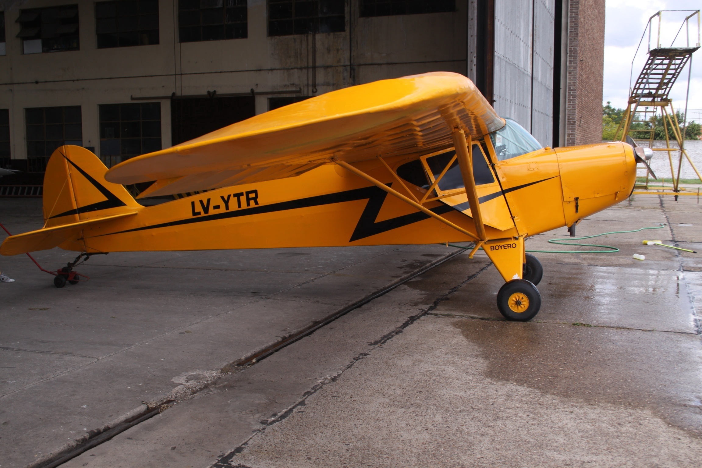 Moron Museo Nactional De Aeronautica